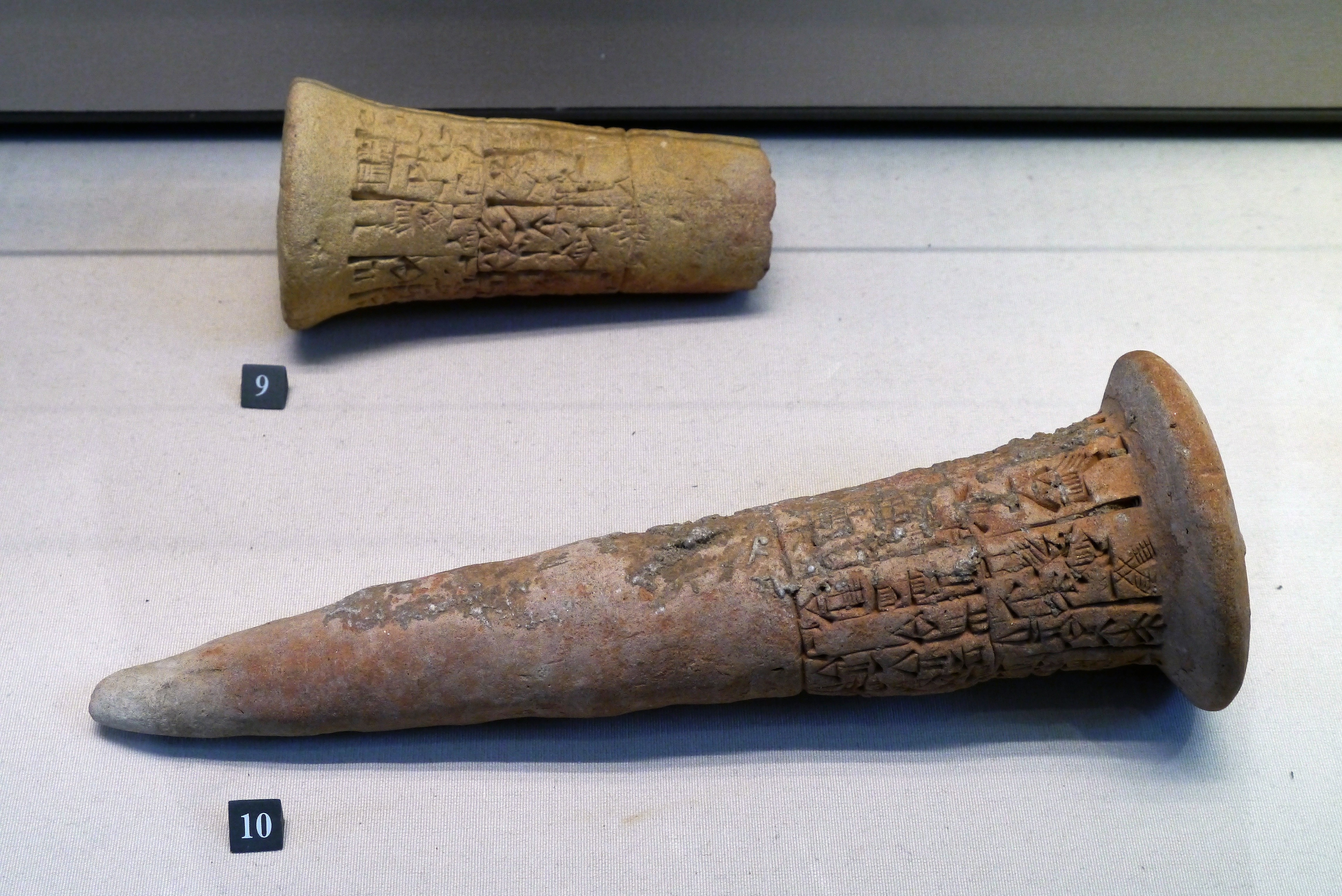 Foundation nail dedicated by Entemena, king of Lagash, to the god of Bad-Tibira, about the peace treaty concluded between Lagash and Umma. Extract from the inscription: "Those were the days when Entemena, ruler of Lagash, and Lugal-kinishe-dudu, ruler of Umma, concluded a treaty of fraternity". This text is the oldest diplomatic document known. Found in Telloh, ancient Girsu, ca. 2400 BC.